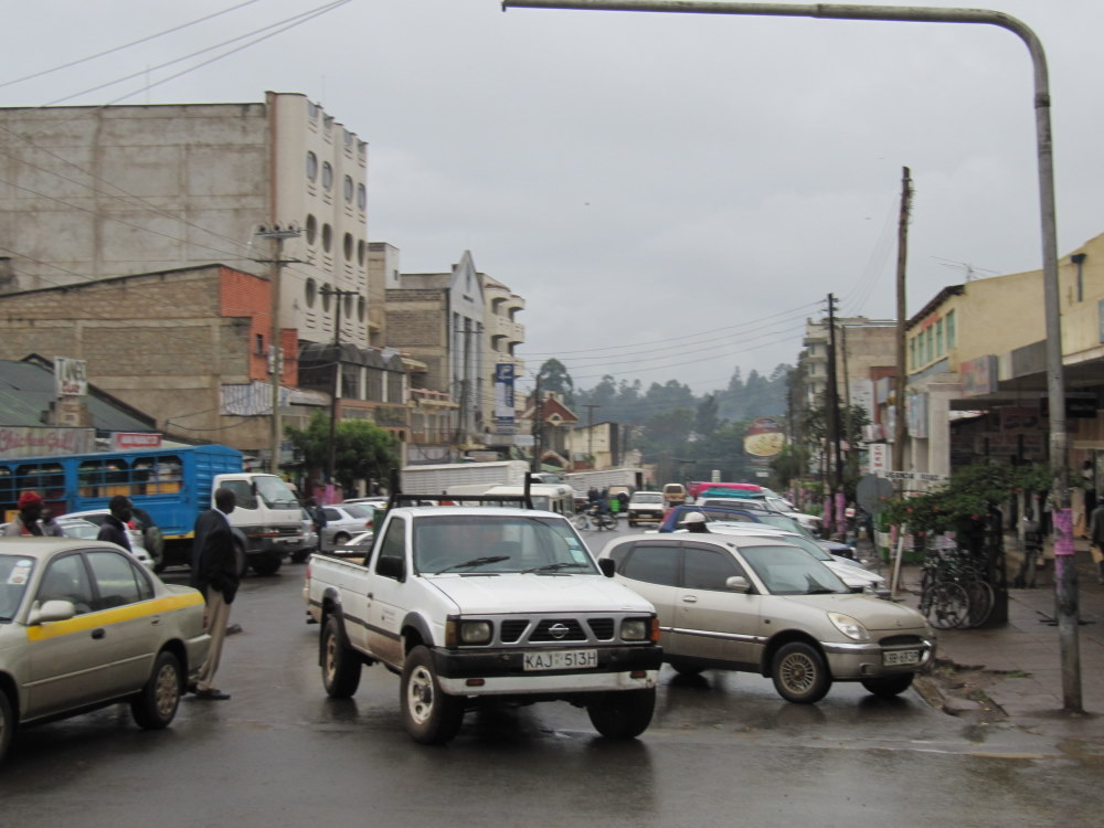 Eldoret. Kenya